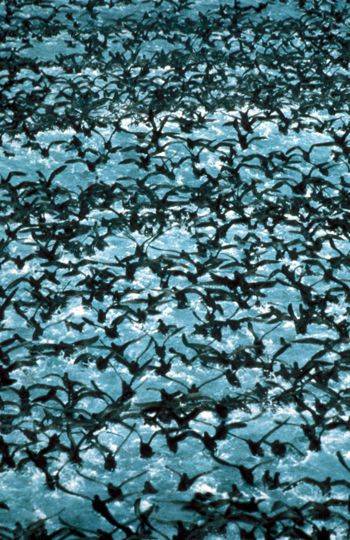 A flock of migrating shearwaters (Short-tailed Shearwaters and Sooty Shearwaters off the Aleutian Islands.